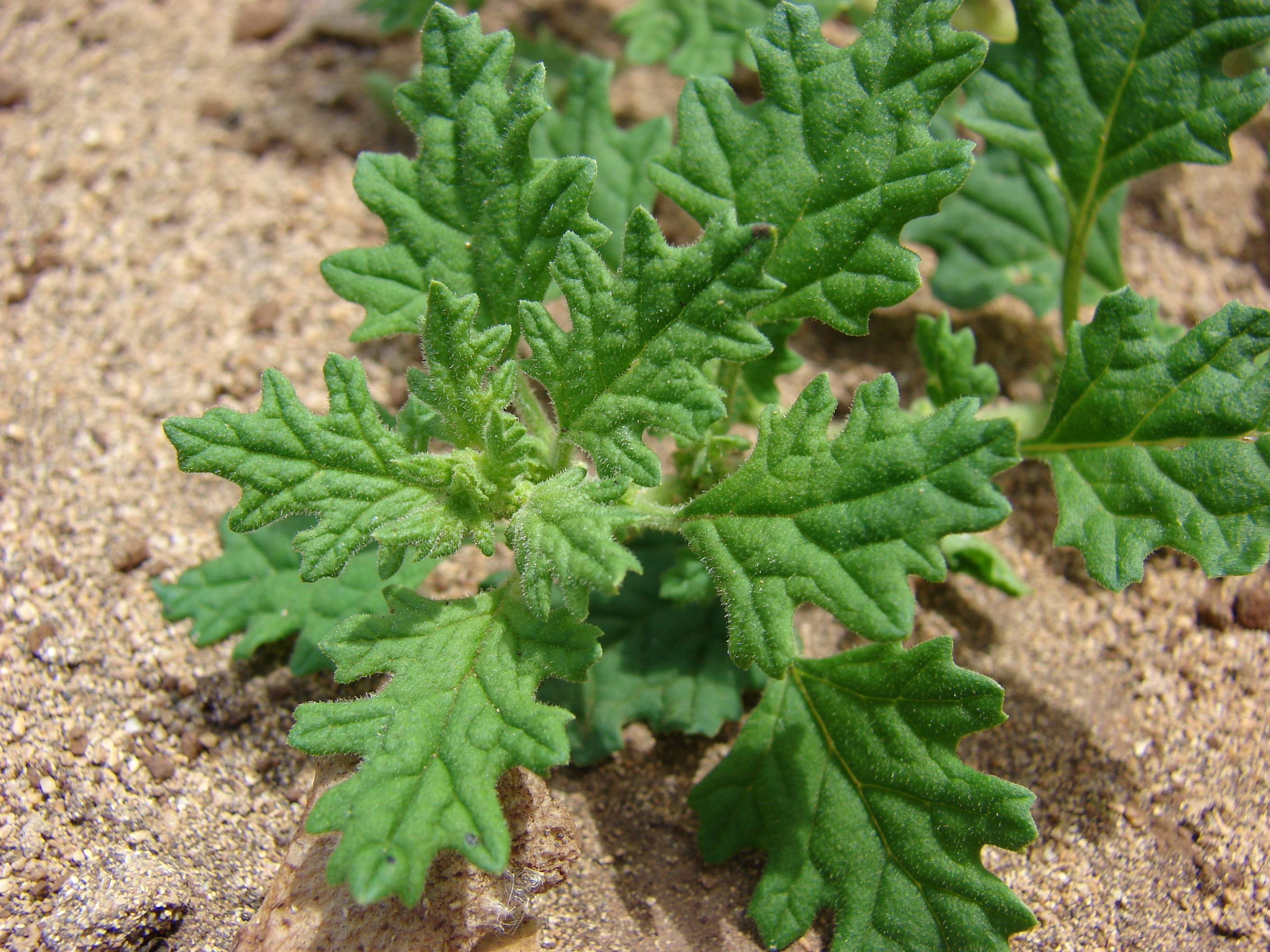 Dysphania carinata (R.Br.) Mosyakin & Clemants, Syn.: Chenopodium carinatum R.Br.) (leaves). Location: Maui, Makawao